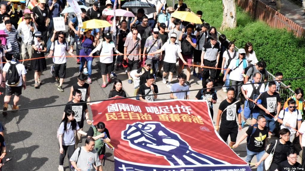 July 1 march in Hong Kong in 2017